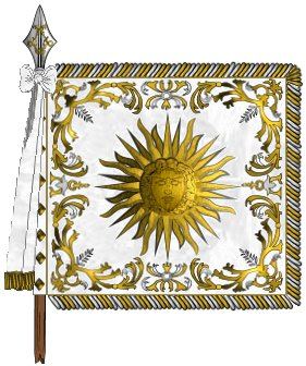 Standard of the 1ère Compagnie Écossaise of the French Gardes du Corps. Created by PMPdeL. Courtesy of Kronoskaf.